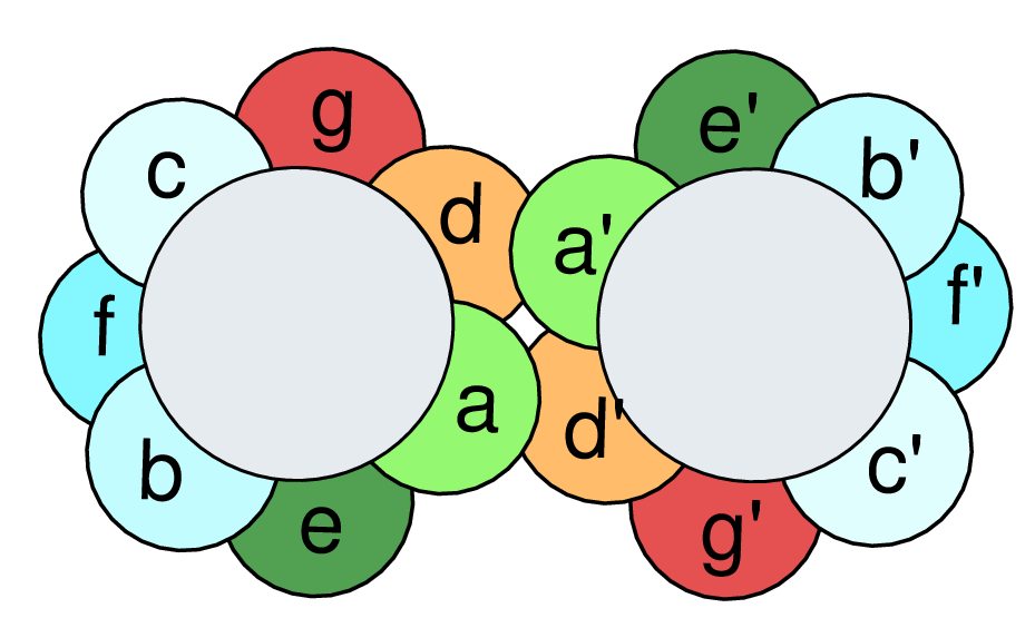 A cartoon of a parallel coiled coil showing interactions between a and d positions in the heptad repeat.